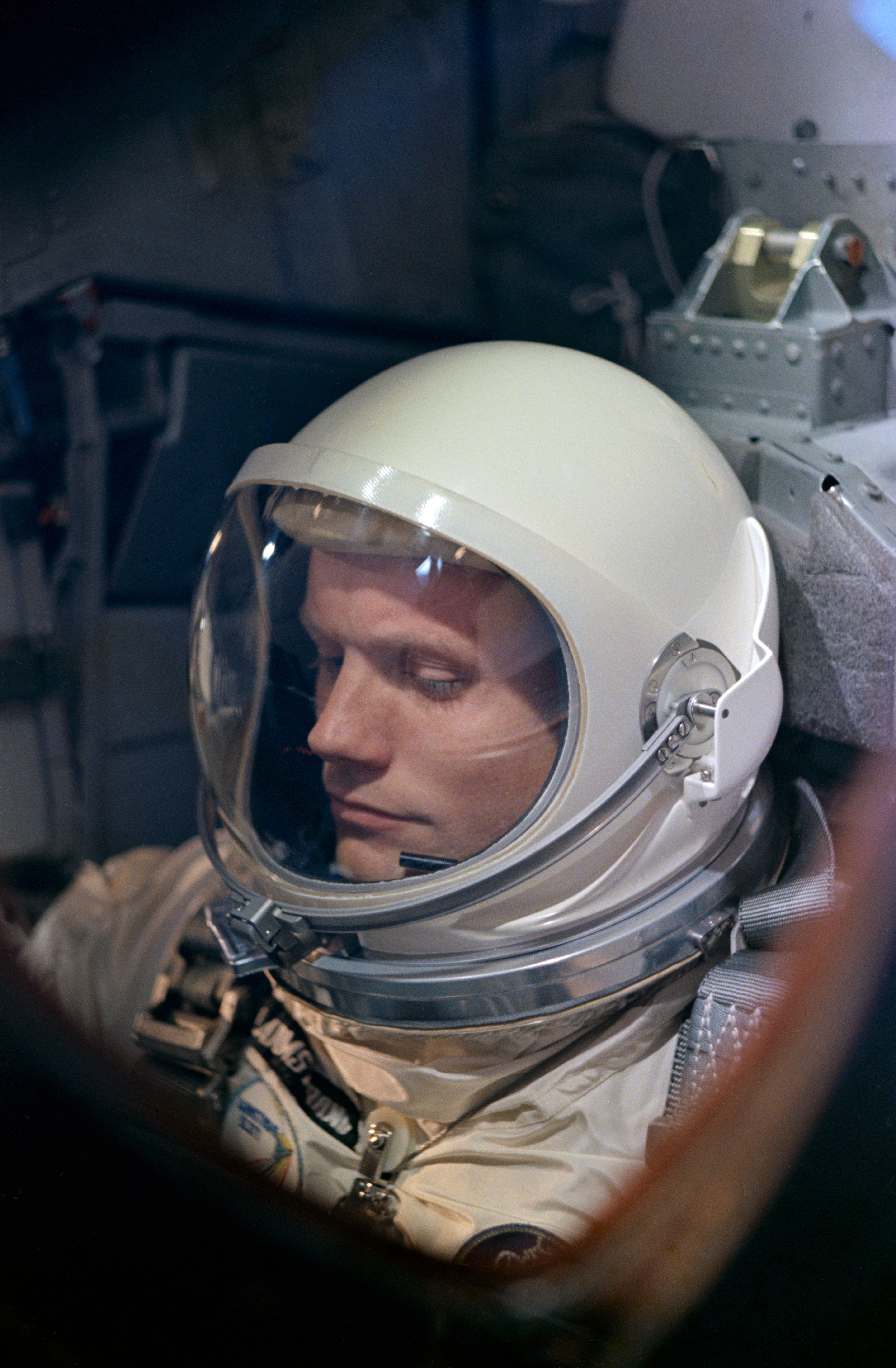 S66-24489 (16 March 1966) --- Close-up view of astronaut Neil A. Armstrong, command pilot of the Gemini-8 spaceflight, making final adjustments and checks in the spacecraft during the Gemini-8 prelaunch countdown.